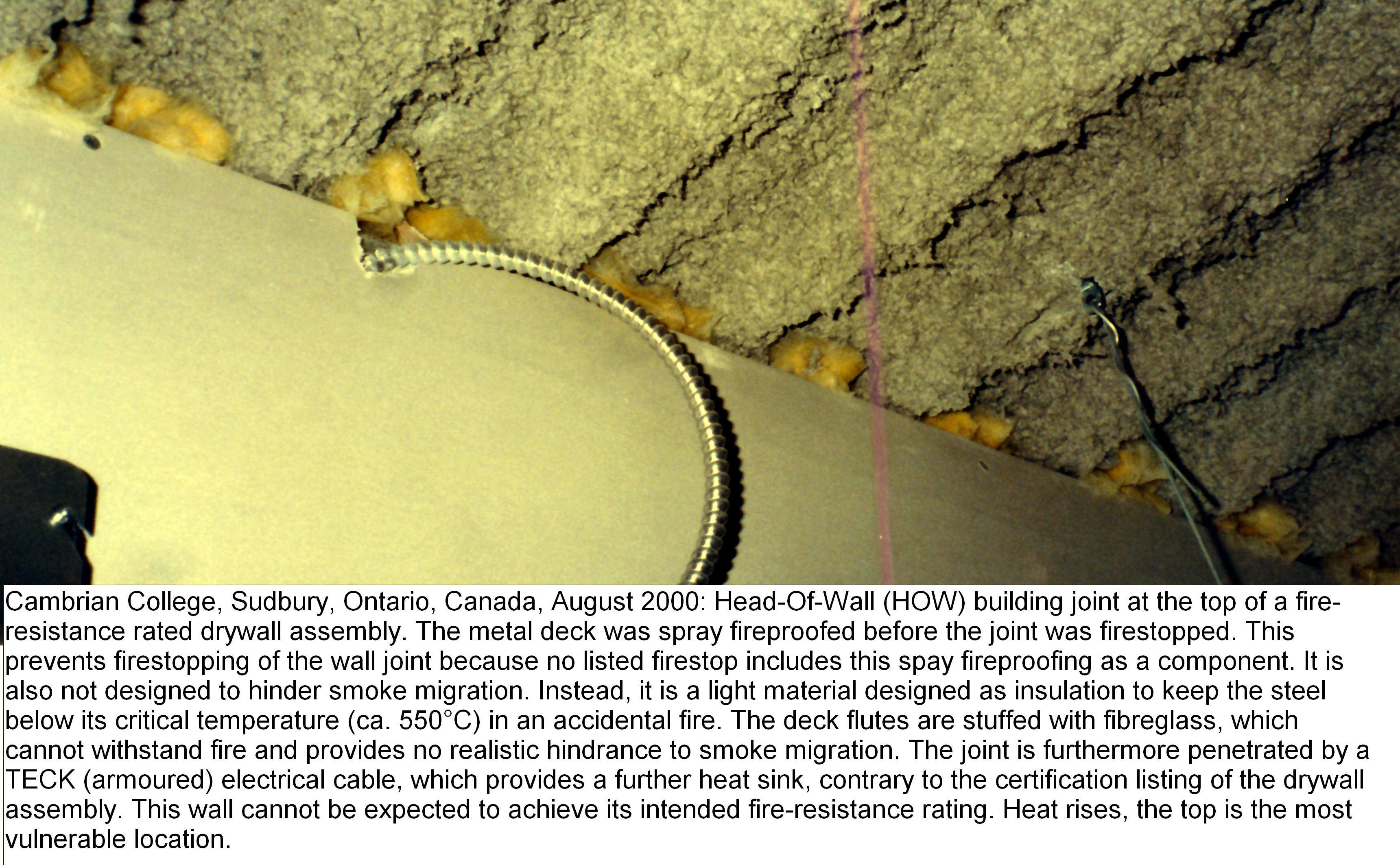 Improper Firestop and Fireproofing interface, August 2000, Cambrian College, Greater Sudbury, Ontario, Canada.